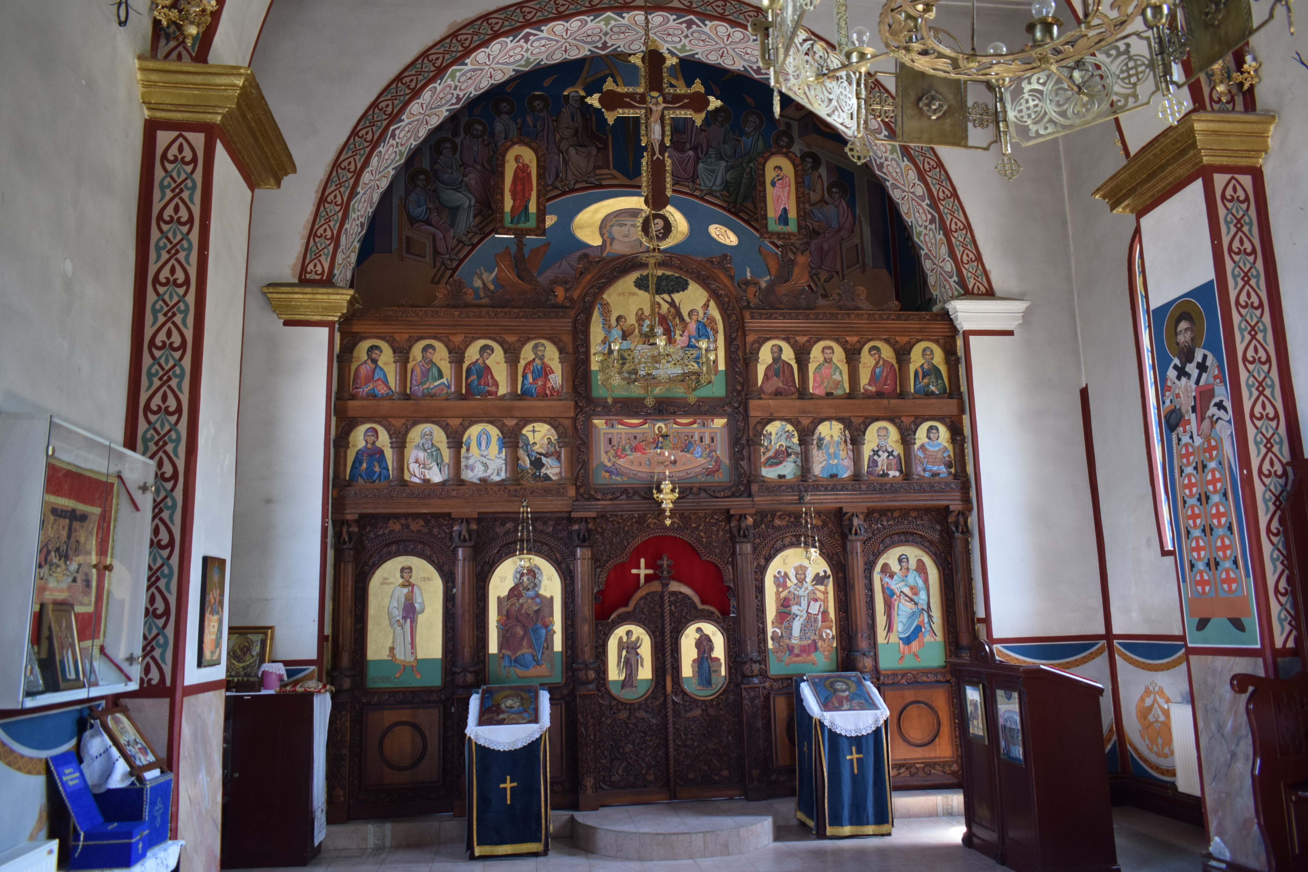 Crkva Svetih Apostola Petra i Pavla, Žitorađa 21